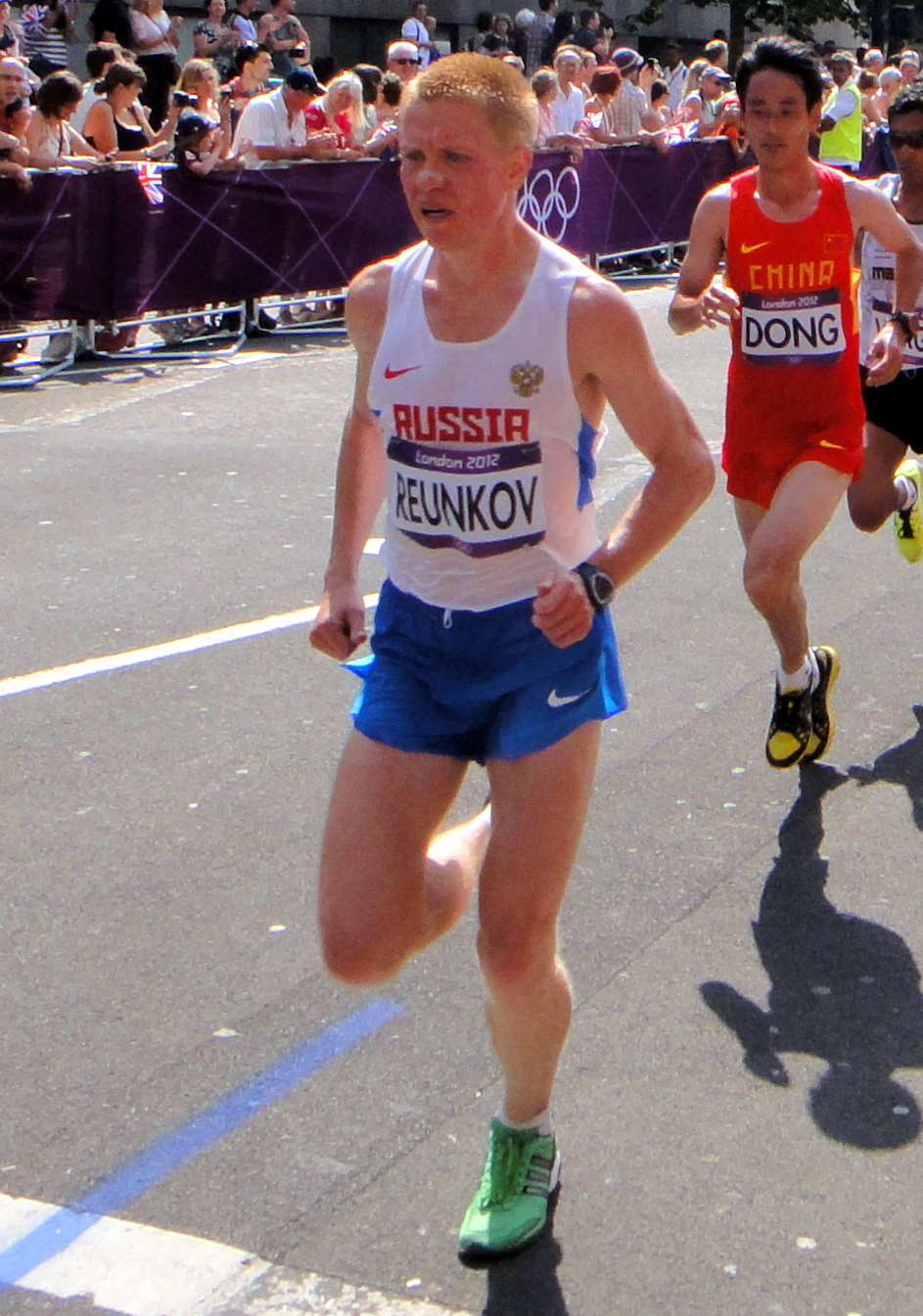 Aleksey Reunkov (Russia), Guojian Dong (China) and Daniel Vargas (Mexico) - London 2012 Men's Marathon